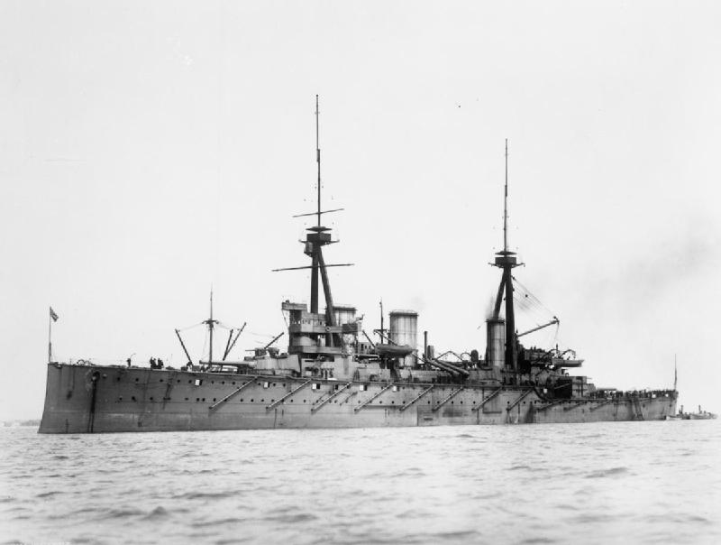 The British battlecruiser HMS Inflexible at anchor